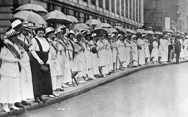 The Golden Lane. On June 14, 1916, during the Democratic Convention in St. Louis, Missouri, suffragists lined Locust Street with their yellow parasols and sashes displaying the words, "Votes for Women."